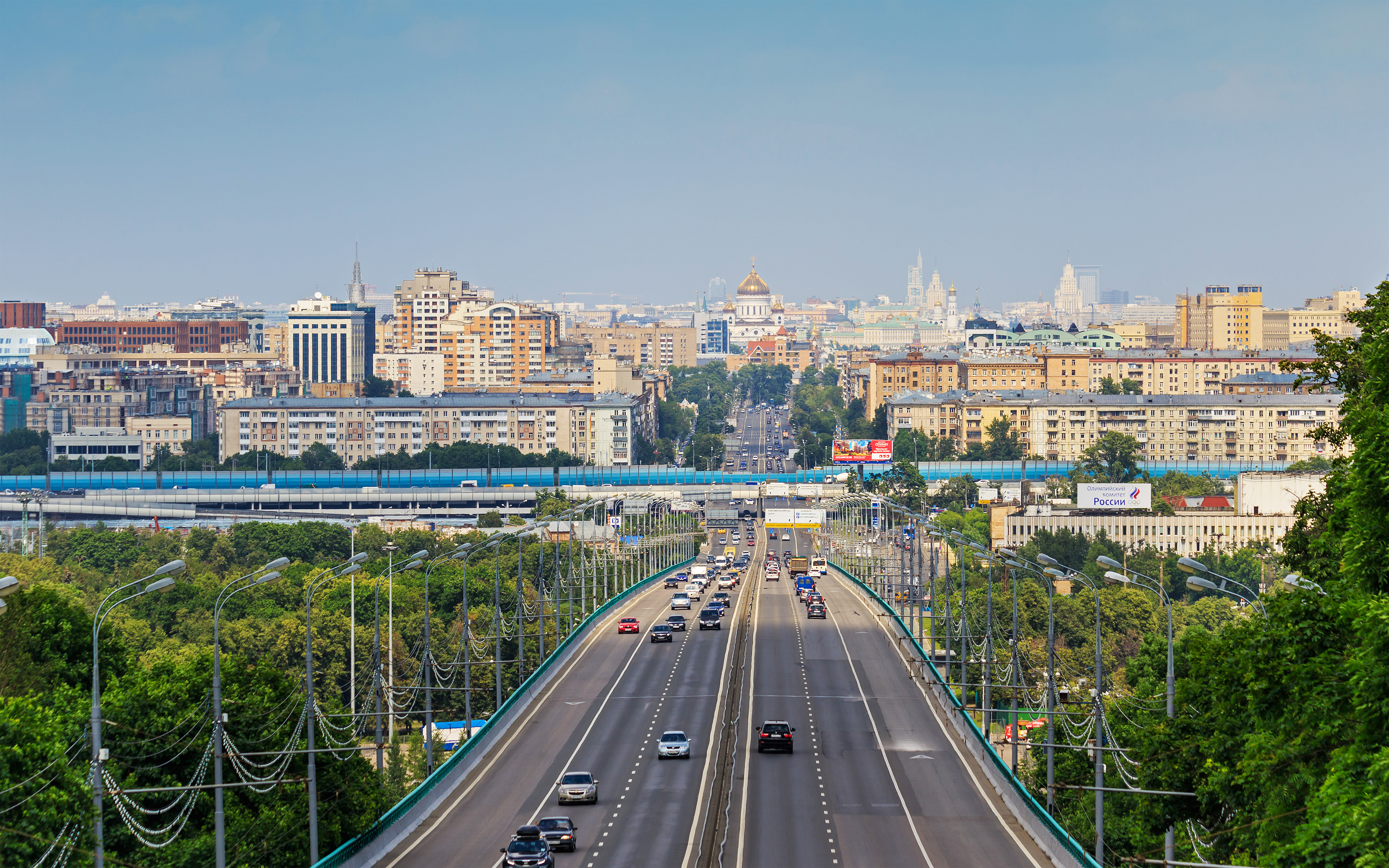 View from Kosygina Street at Sparrow Hills in Moscow